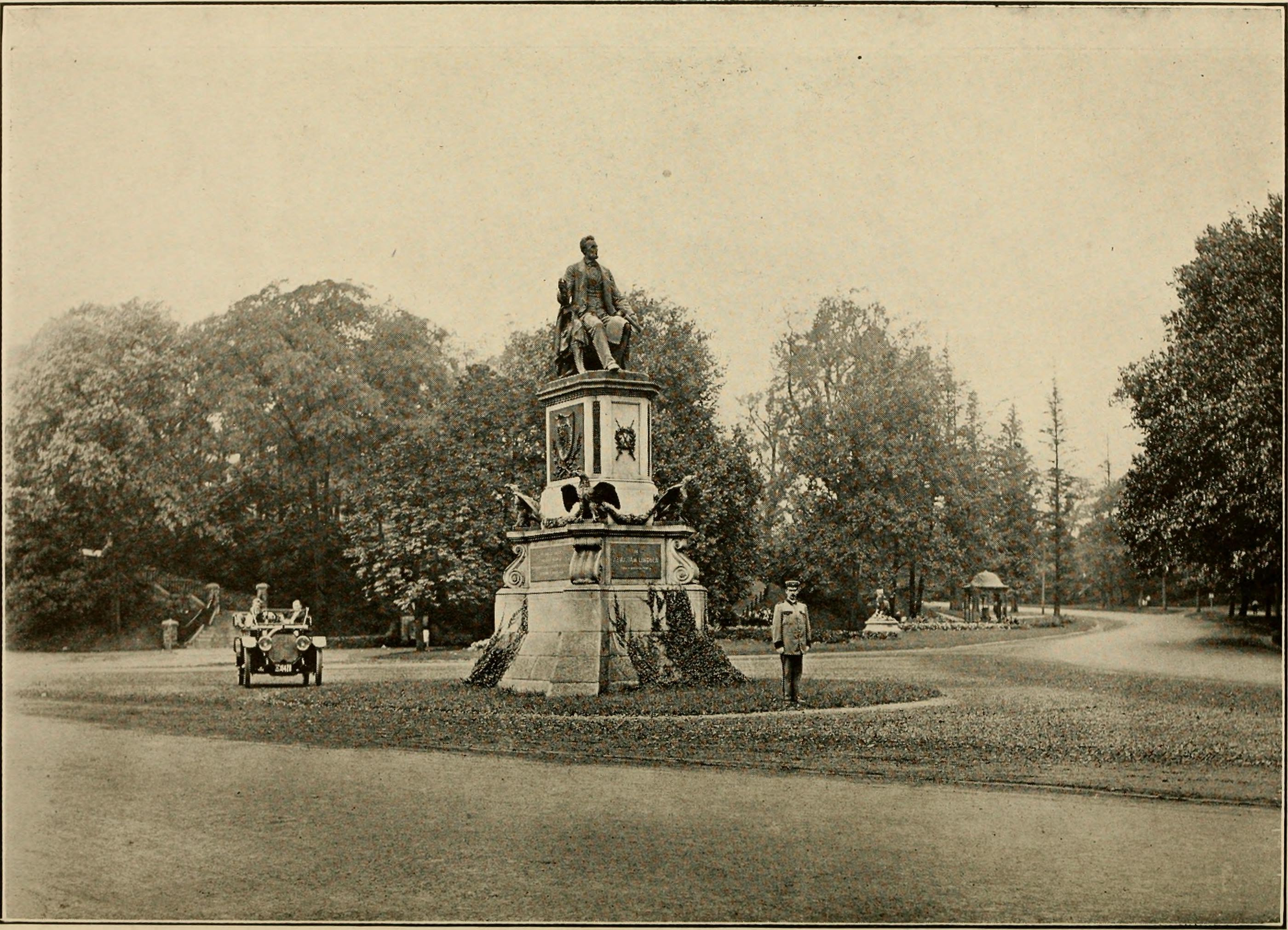 Title: Illustrated Souvenir of Fairmount Park, Philadelphia, Pa. Year: 1918 (1910s) Authors: Fairmount Park Guard Pension Fund Association Subjects: Fairmount Park (Philadelphia, Pa.). Publisher: Philadelphia: Reichert Text Appearing Before Image: ' Text Appearing After Image: '